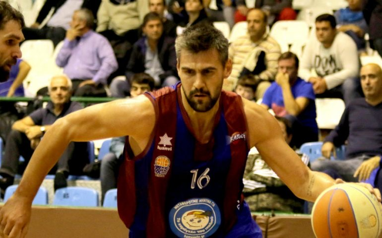 stefanshek